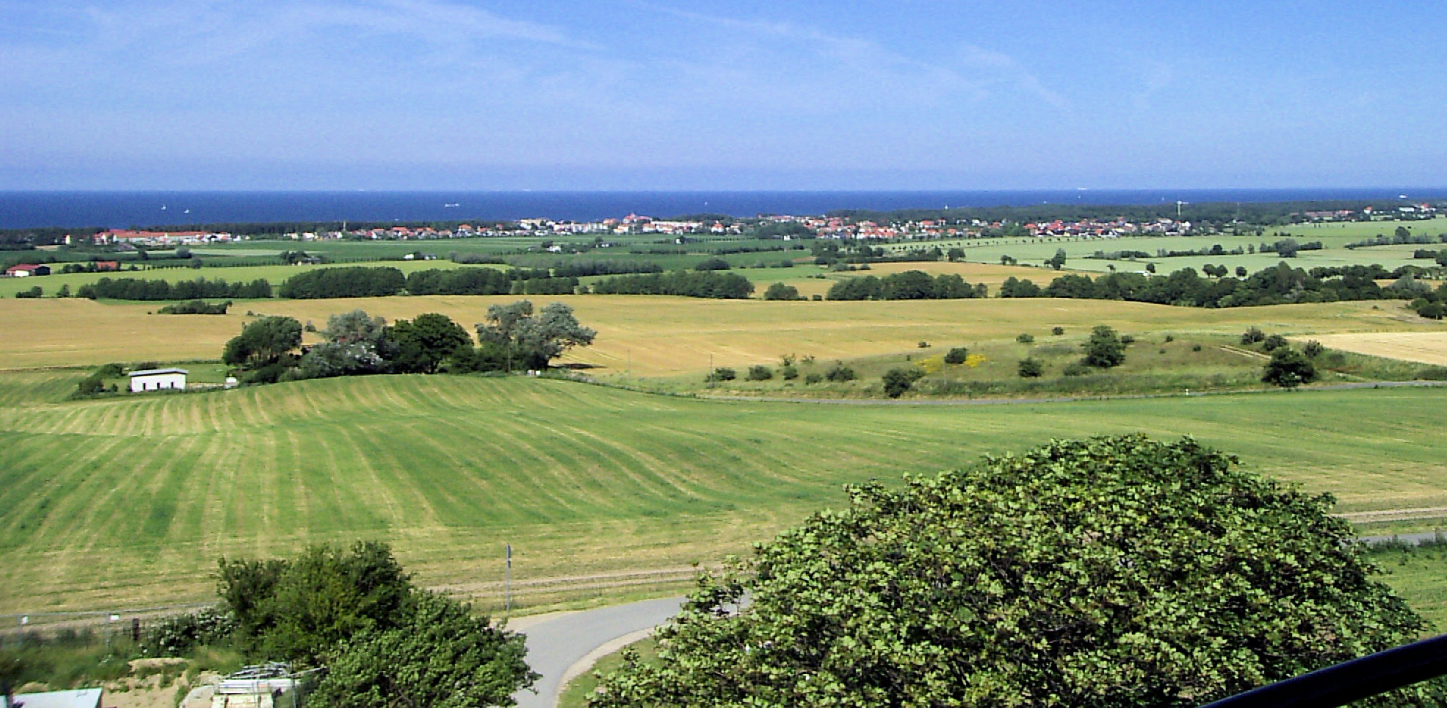 View from Bastorf Lighthouse to Baltic Sea Coast near Kühlungsborn, Germany